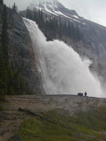 Emperor Falls, Mount Robson Provincial Park, Canada.